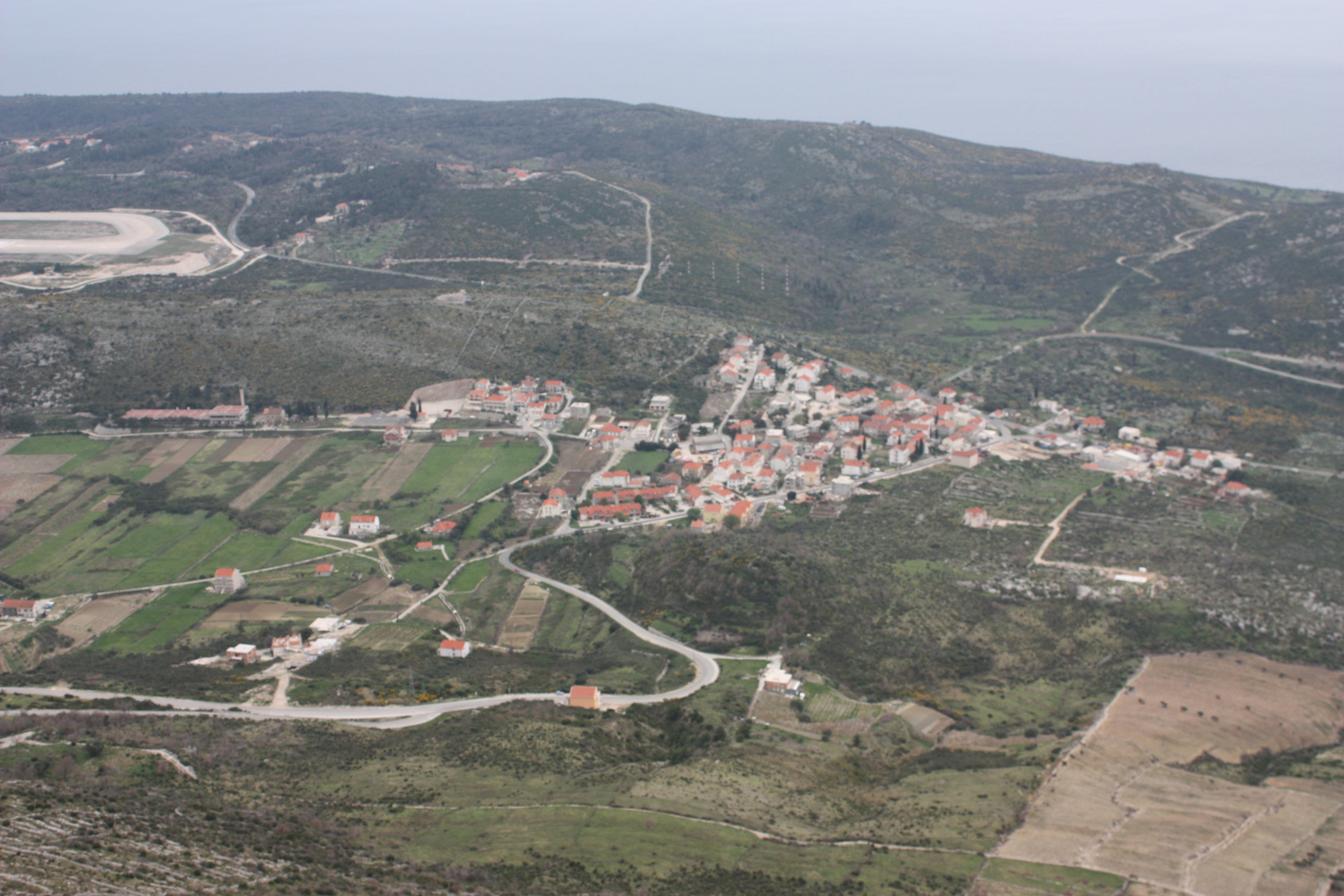 Zvekovica - view from the mountain